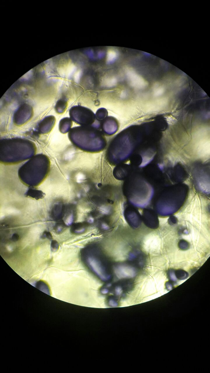 Microscopic photo of a potato. They are visible agglomerations of starch by the dark color.